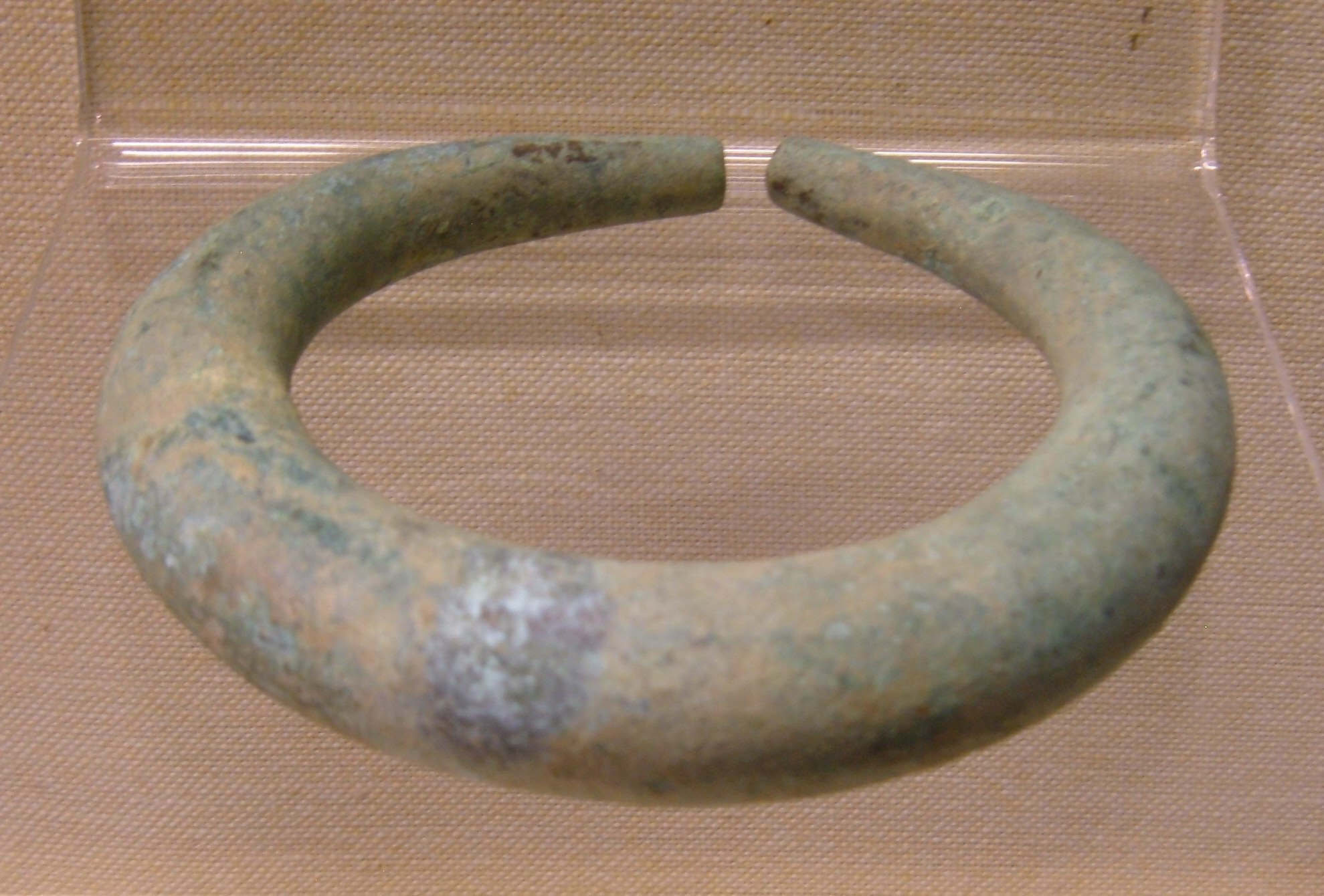 Persian bronze bracelet (ca. 1000 BCE) from Marlik on display at the Rosicrucian Egyptian Museum in San Jose, California.